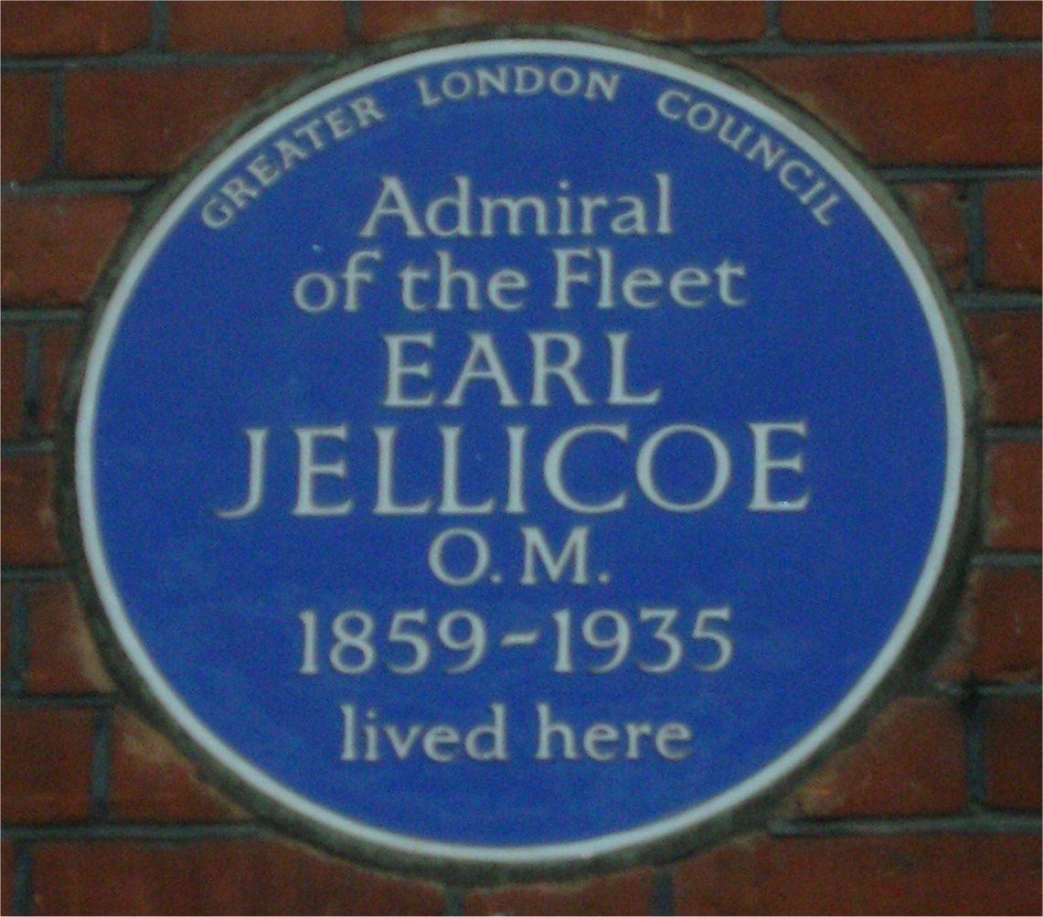 Blue plaque to John Jellicoe, 1st Earl Jellicoe on his house in Blacklands Terrace, London, England. Photographed by me 29 September 2006. Oosoom 22:19, 2 October 2006 (UTC)